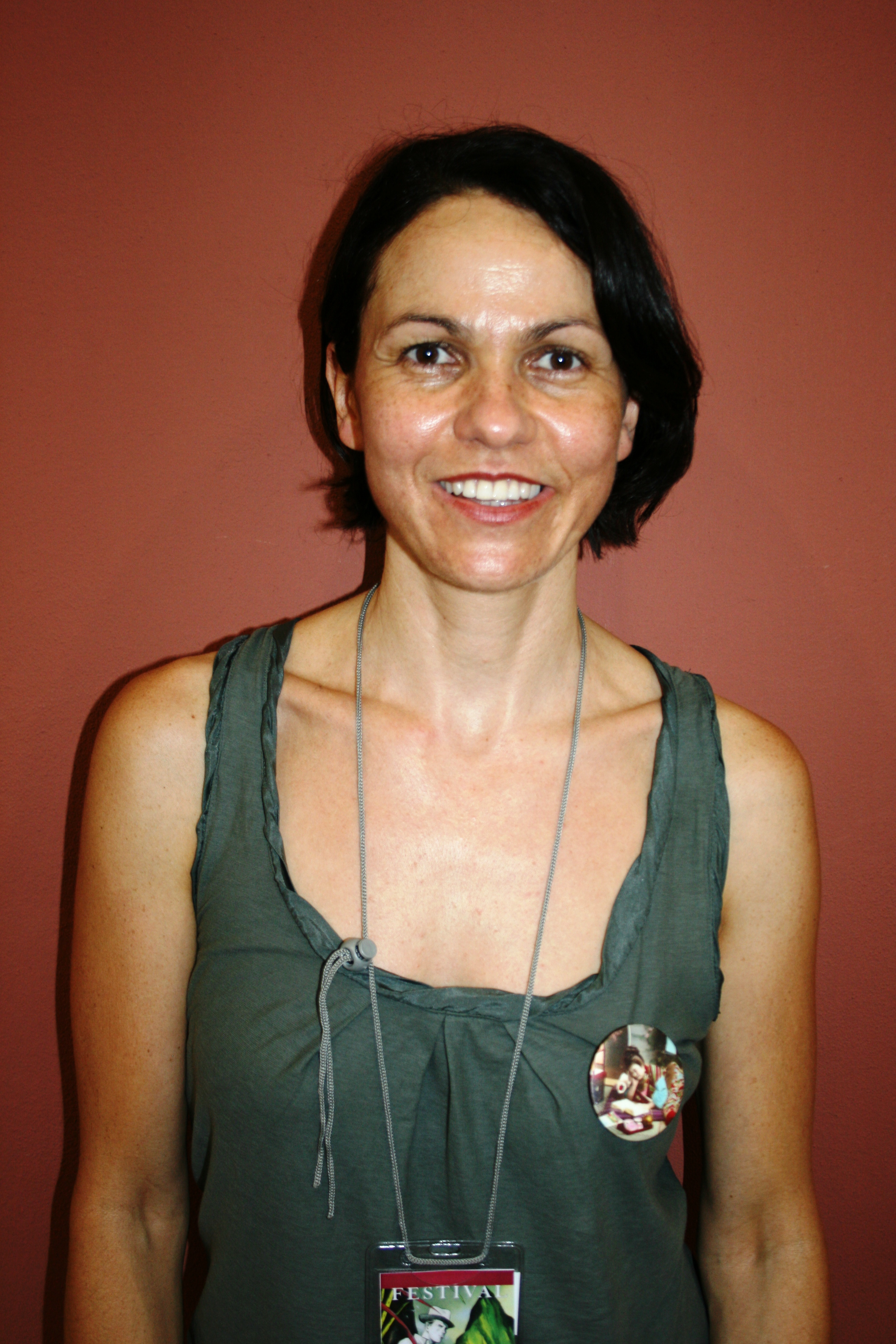 The French writer Joëlle Écormier at the 6th Festival du livre et de la bande dessinée, Saint-Denis, Réunion.